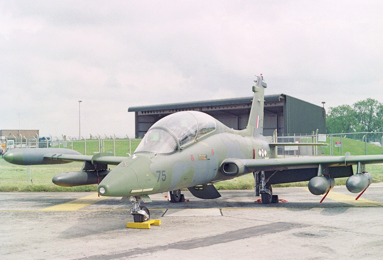 Fairford (FFD / EGVA) UK - England, July 24, 1993.